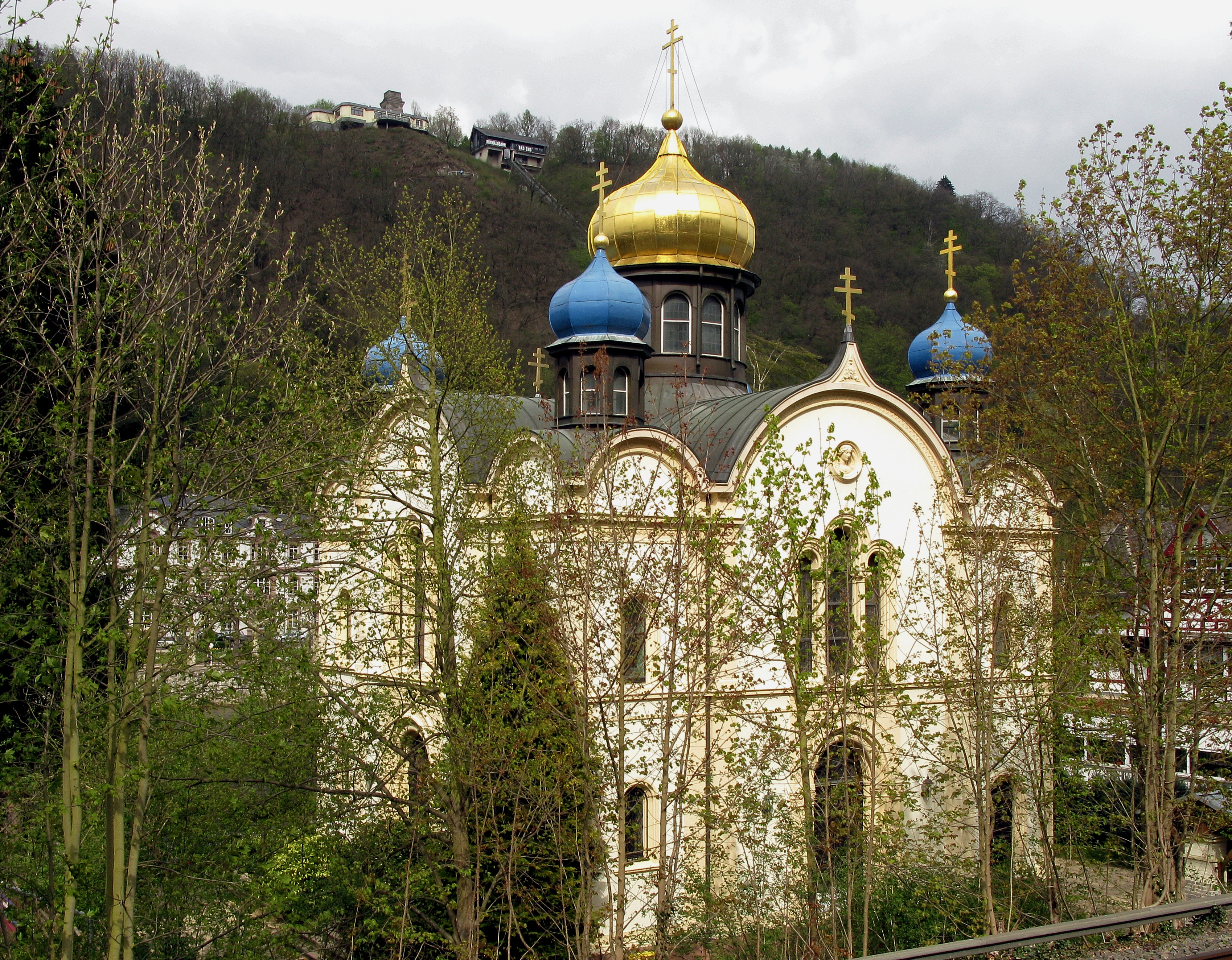 Russian Church in Bad Ems, Germany, 19th century